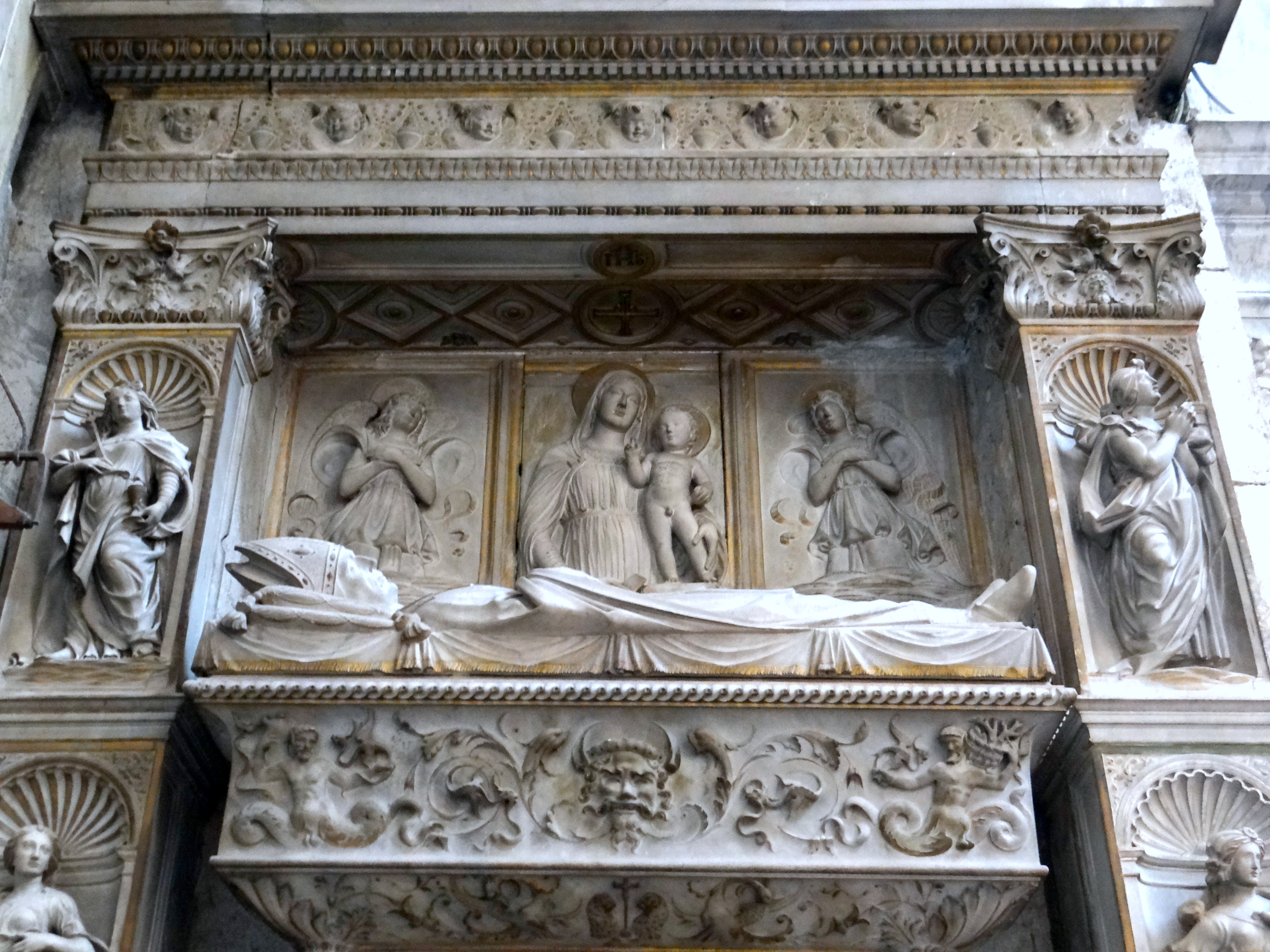 Upper part of the monument of Ludovico Podocataro with the cardinal's effigy, work by Andrea Bregno.